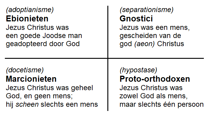 New Testament scholar Bart D. Ehrman's model of early Christian sects' core beliefs about Jesus (in Dutch).